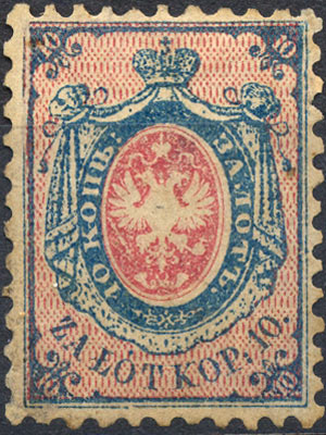 Definitive issue of postage stamps of the Kingdom of Poland